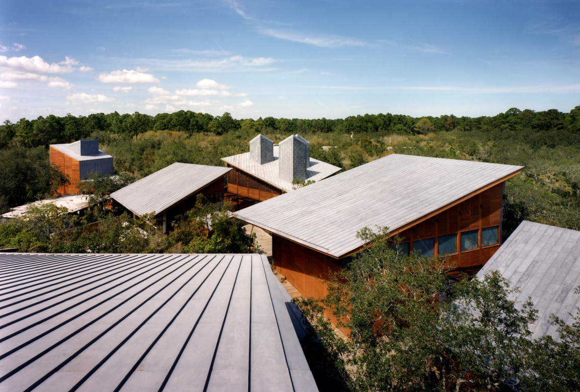 Overhead view of the Atlantic Center for the Arts